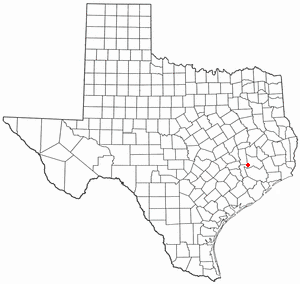 Map of Texas, dot on city of Magnolia